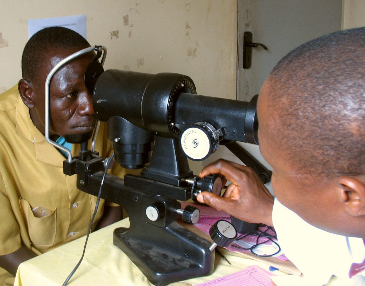 Eye specialist Dr. Ahmedu examining a patient with a keratometer. This instrument is used to determine the strength of intraocular lens needed after cataract surgery.